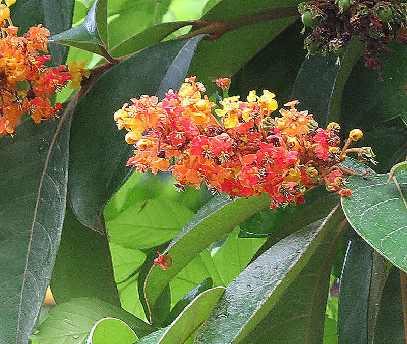 Flowers of a tree valued for its distinctive tasting fruit known as Nance. Widely planted from a neotropical origin. Photo from Barro Colorado Island, Panama.